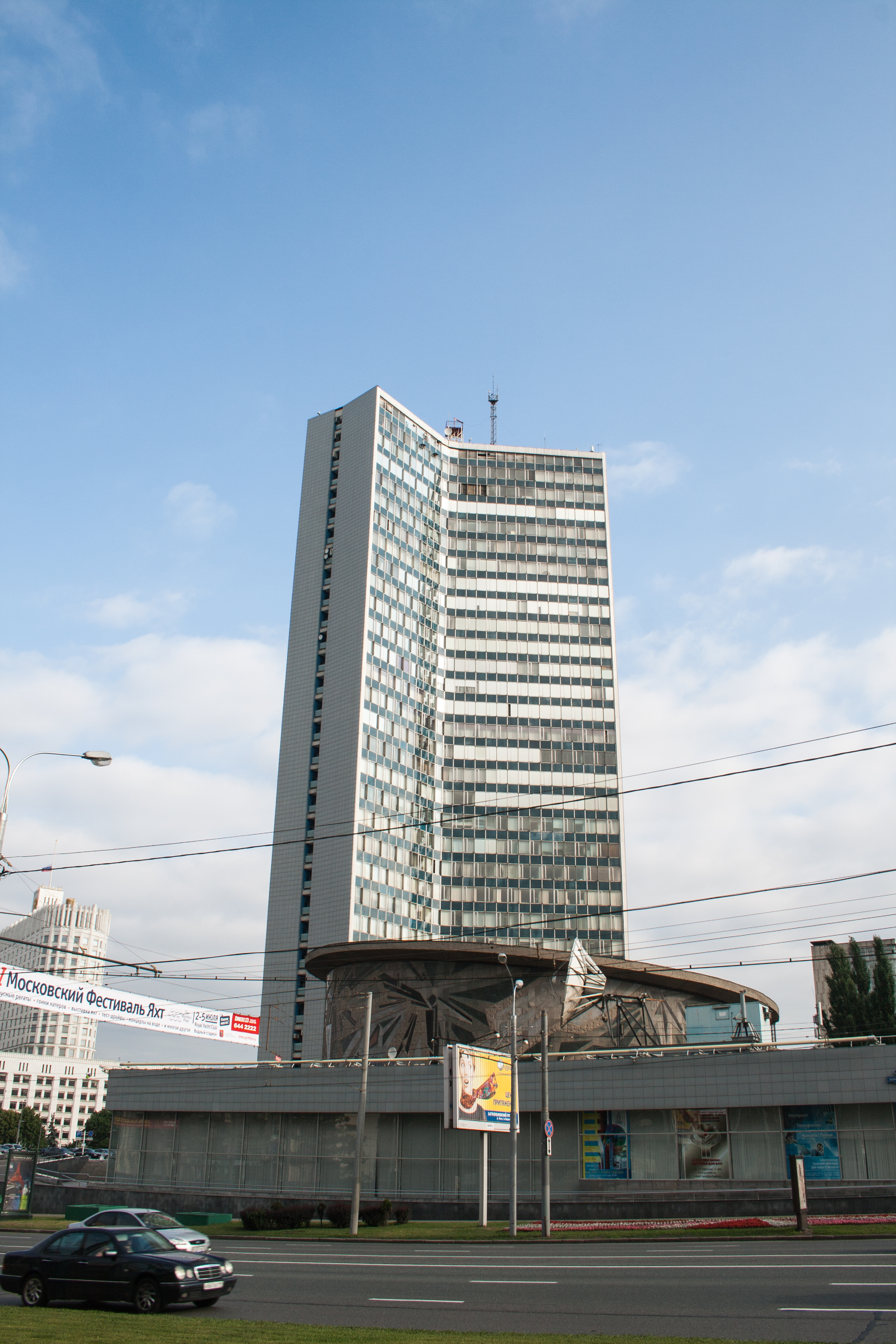 Comecon building, Moscow